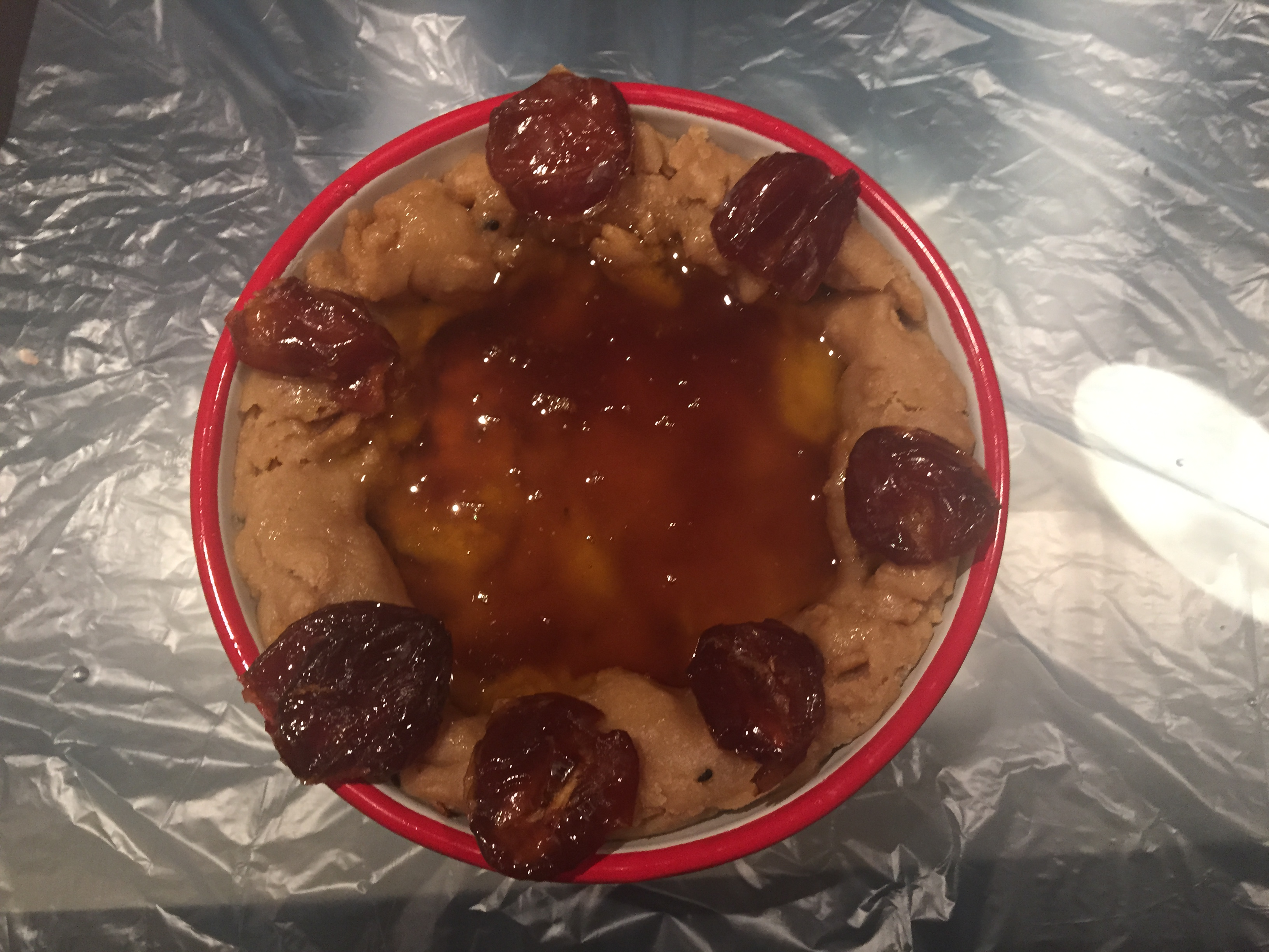 Arika which is a southern dish from the Saudi cuisine.